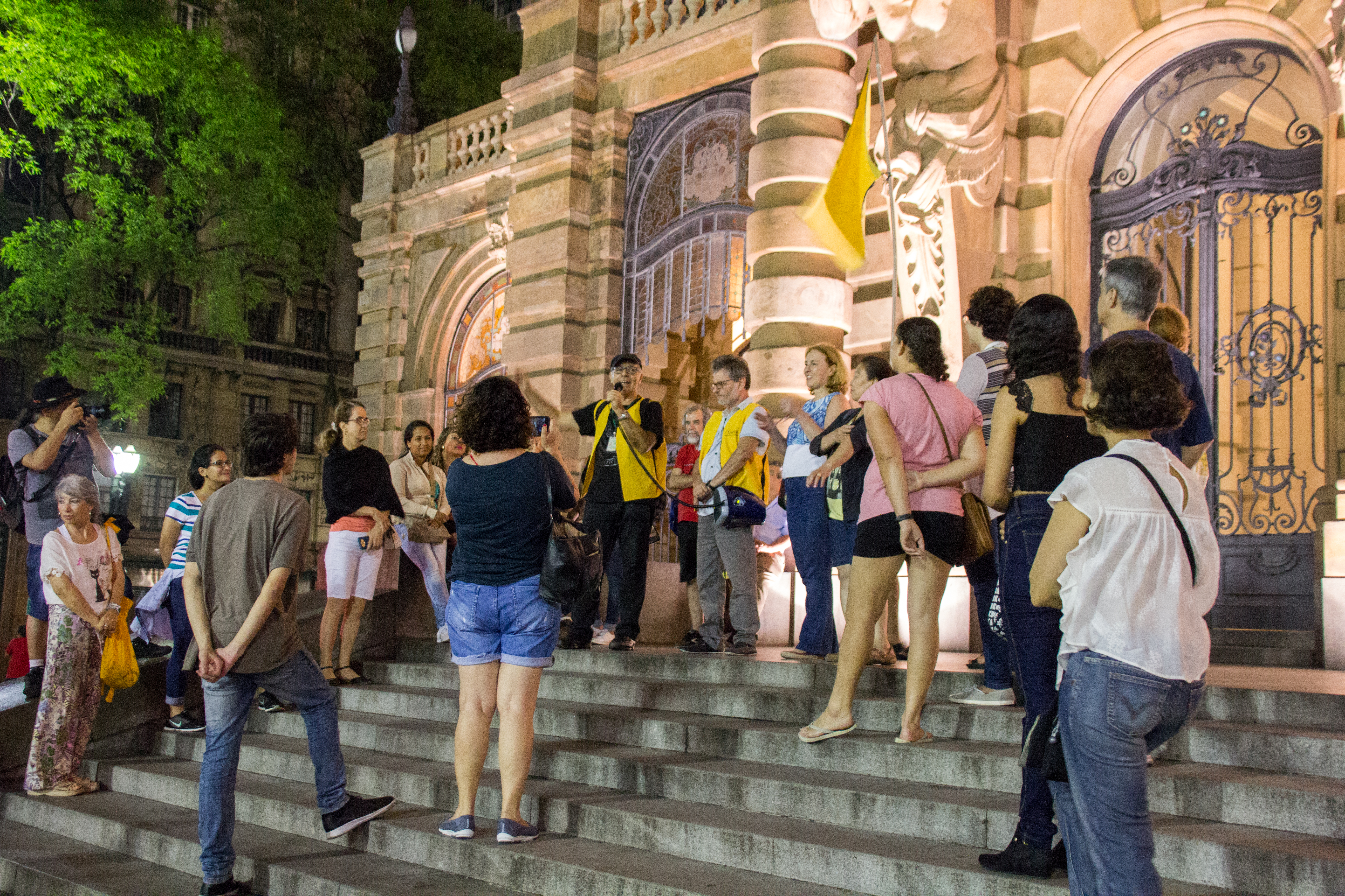 Caminhada Nocturna on 12 October 2017, São Paulo, Brazil